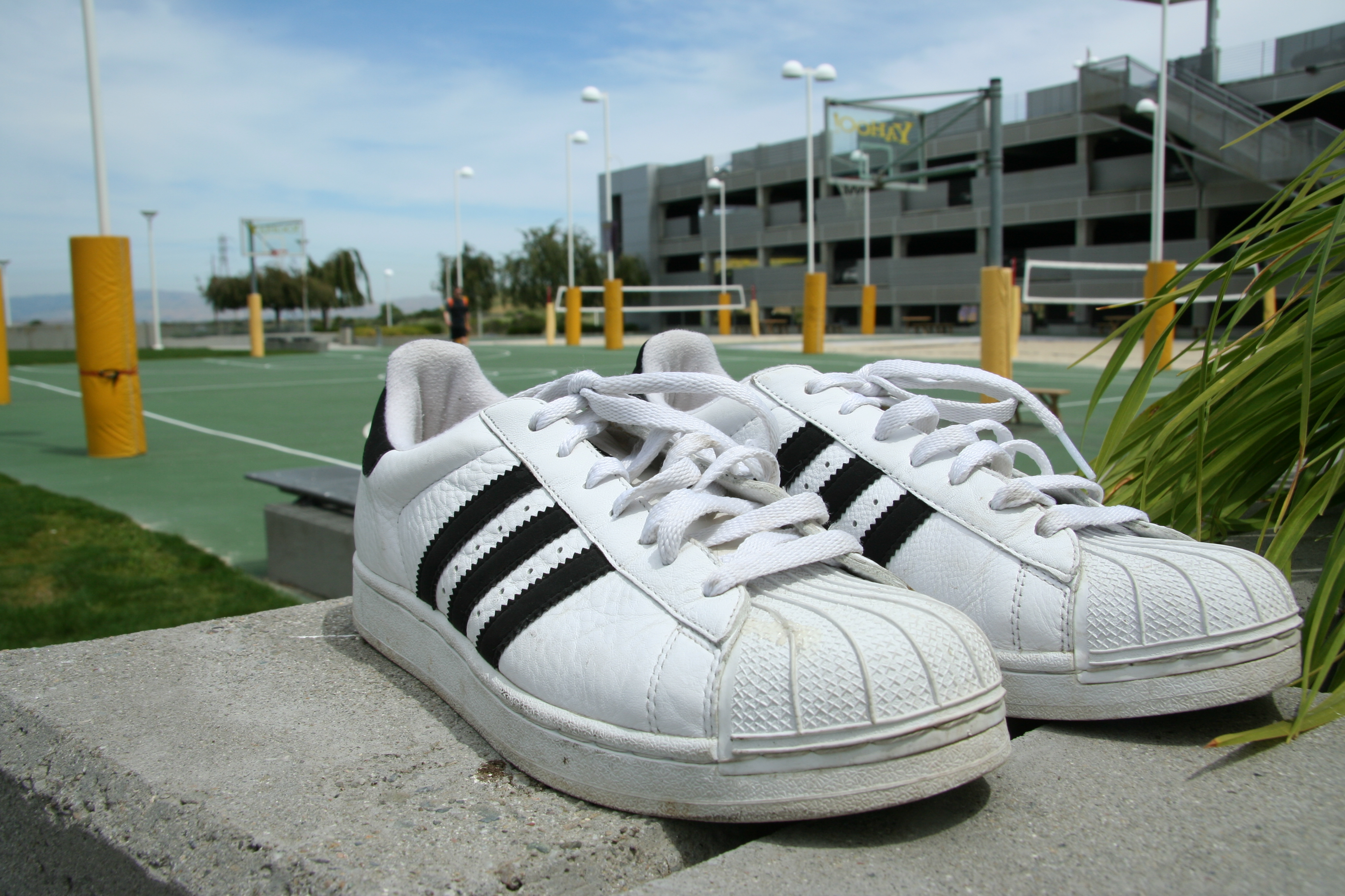 Chief Yahoo David Filo's sneakers.